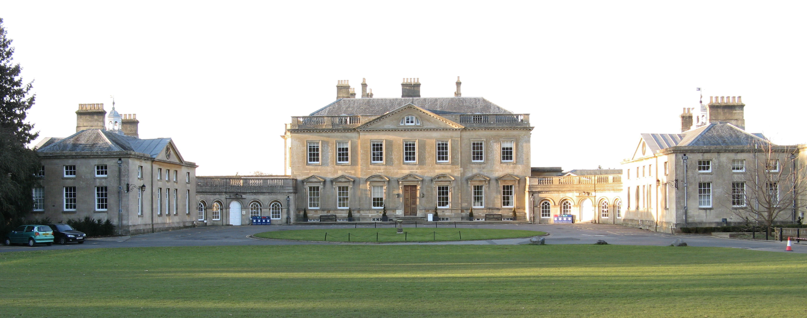 Newton Park country house, main entrance side, from the south-east. Now part of the main Bath Spa University campus.